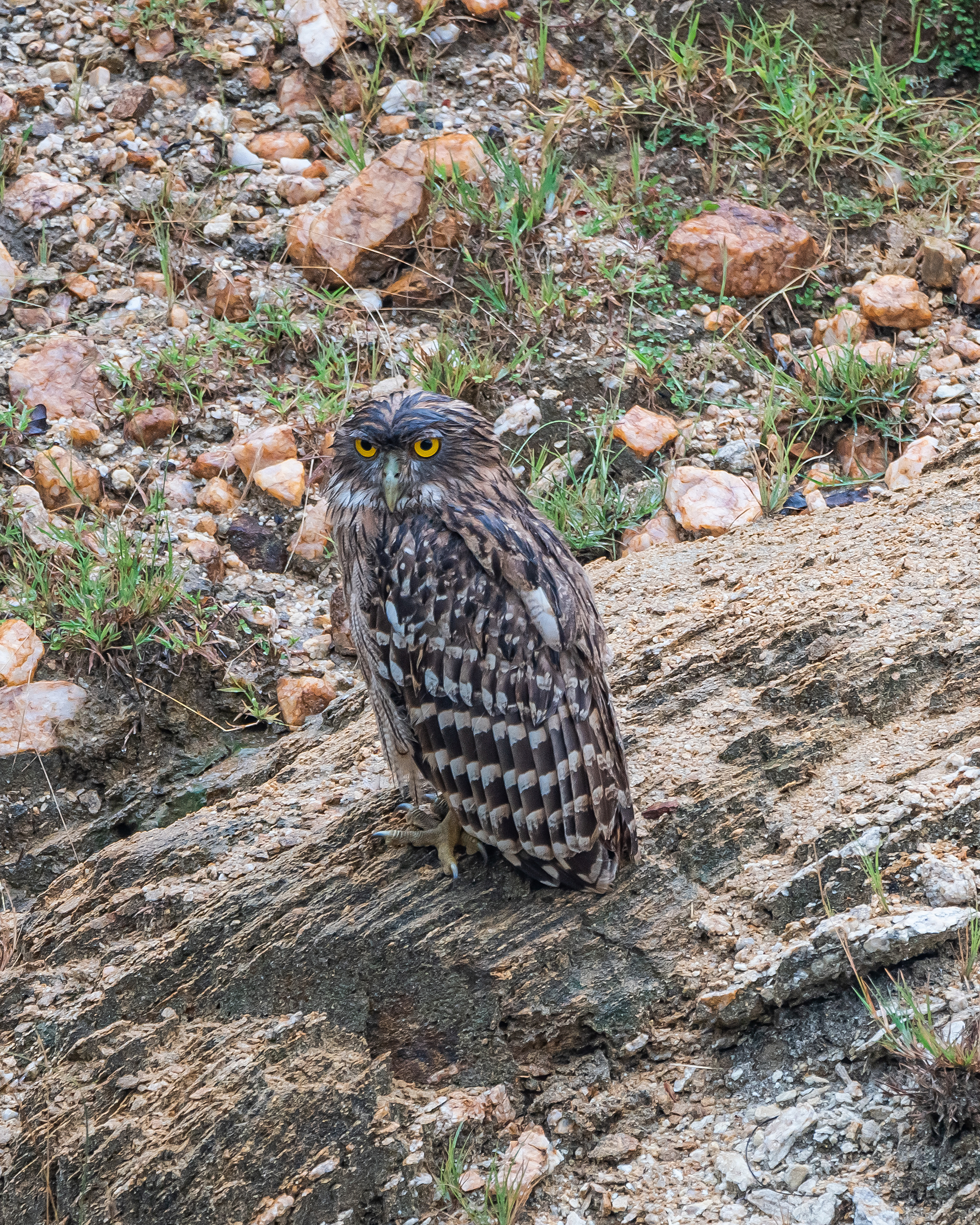 Brown Fish Owl in Yala National Park Block V at Weheragala Reservoir, Sri Lanka